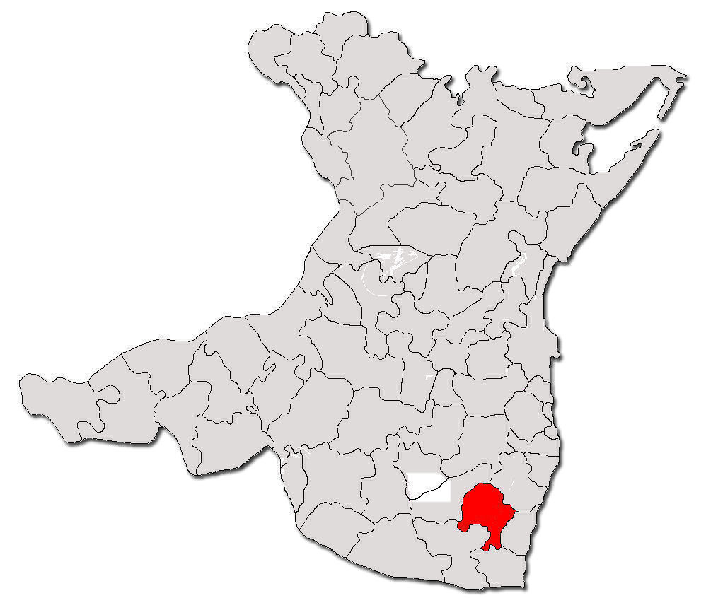 Countour map of Pecineaga commune